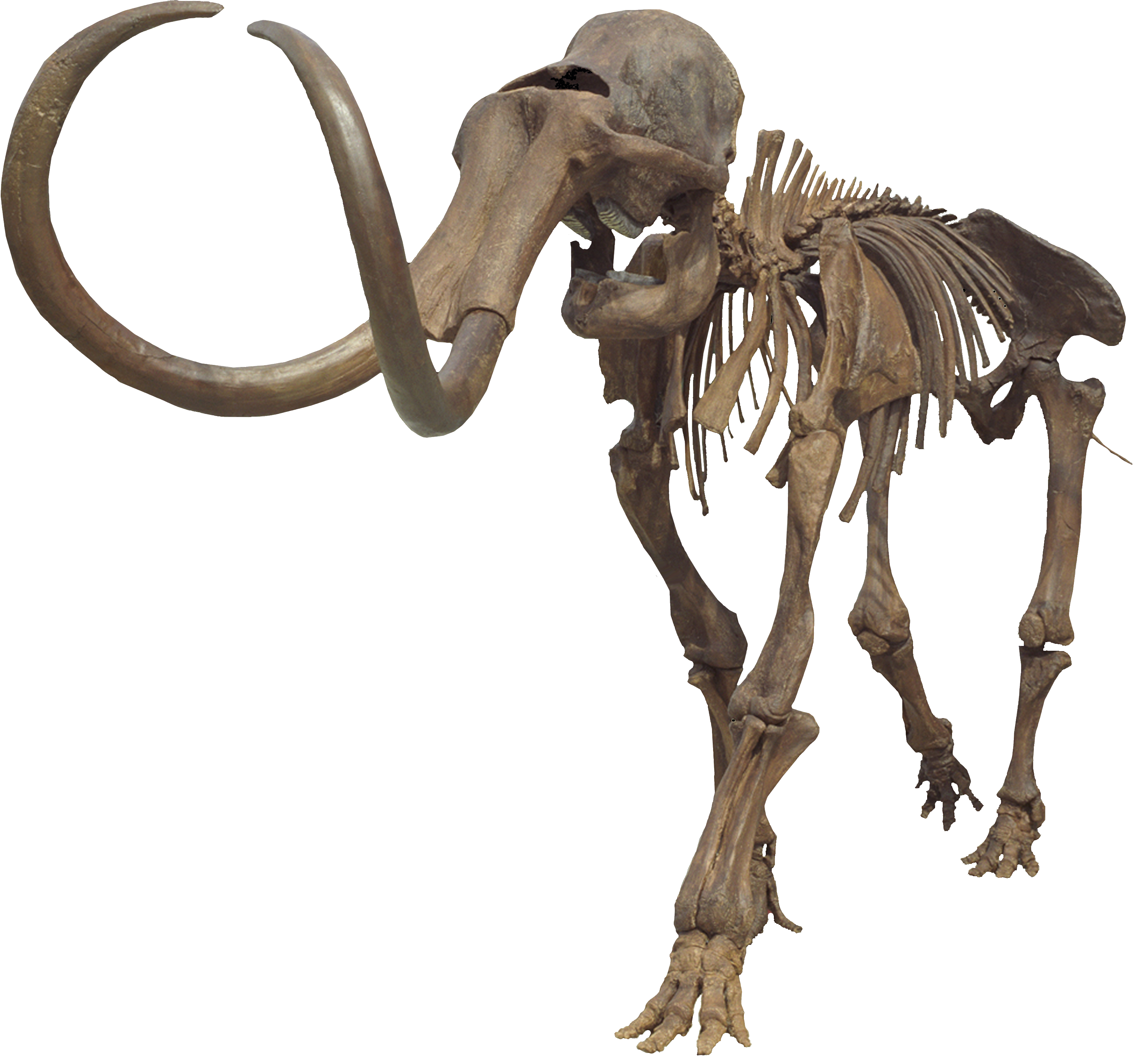 Mammuthus columbi "Aucilla Mammoth" specimen, cast skeleton produced and distributed by Triebold Paleontology Incorporated